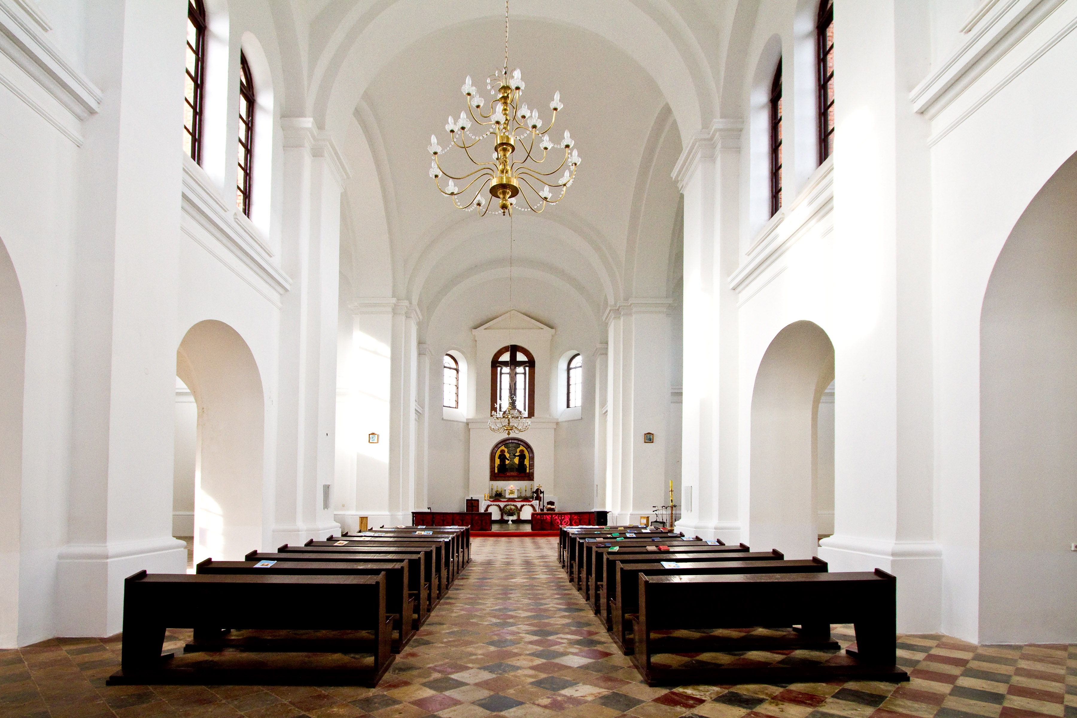 Catholic church of the Holy Trinity in Rosica. Vierchniadźvinsk district, Viciebsk province, Belarus.